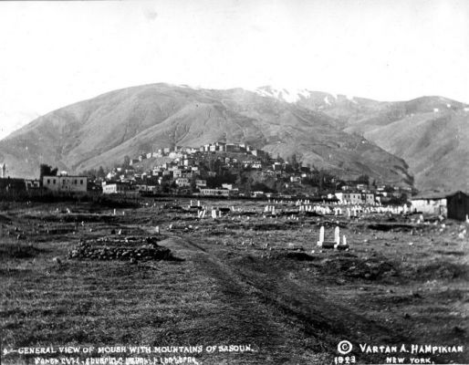 Muş city in 1923, Turkey